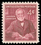 US stamp honoring Andrew Carnegie